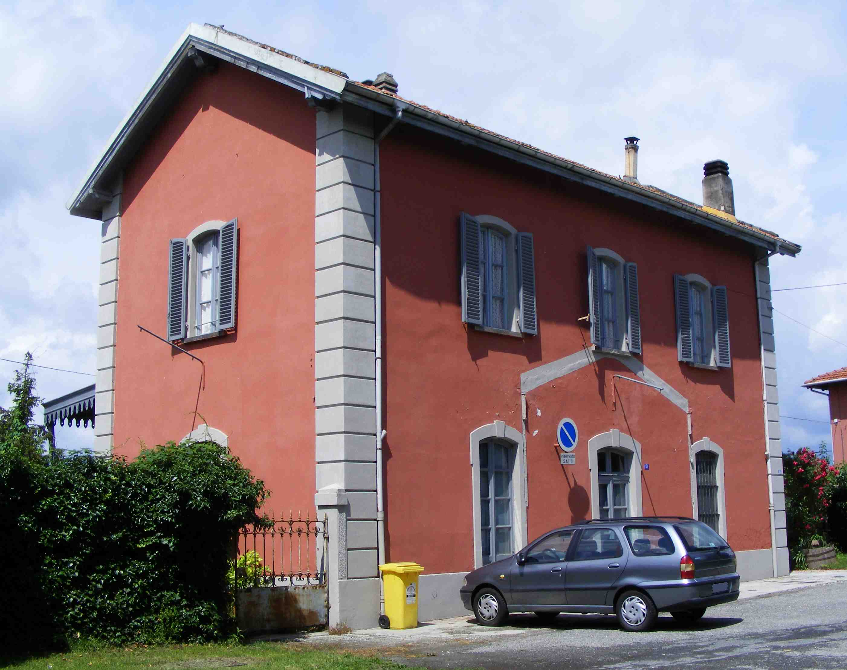 Ozegna former railway station (TO, Italy)